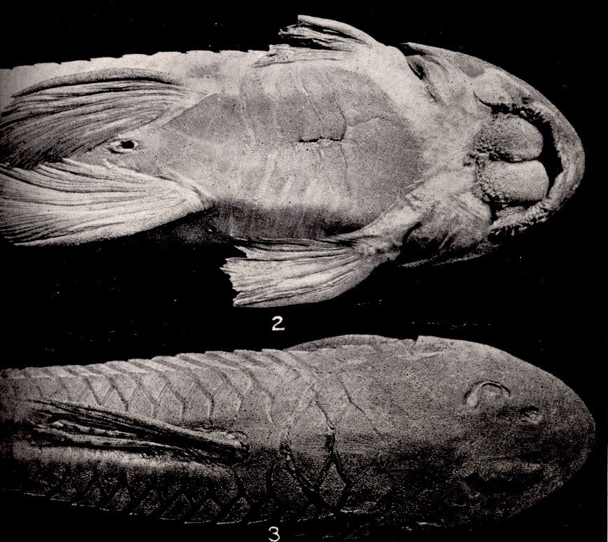 Loricaria typus (Bleeker) Subject: Catfishes Tag: Fish